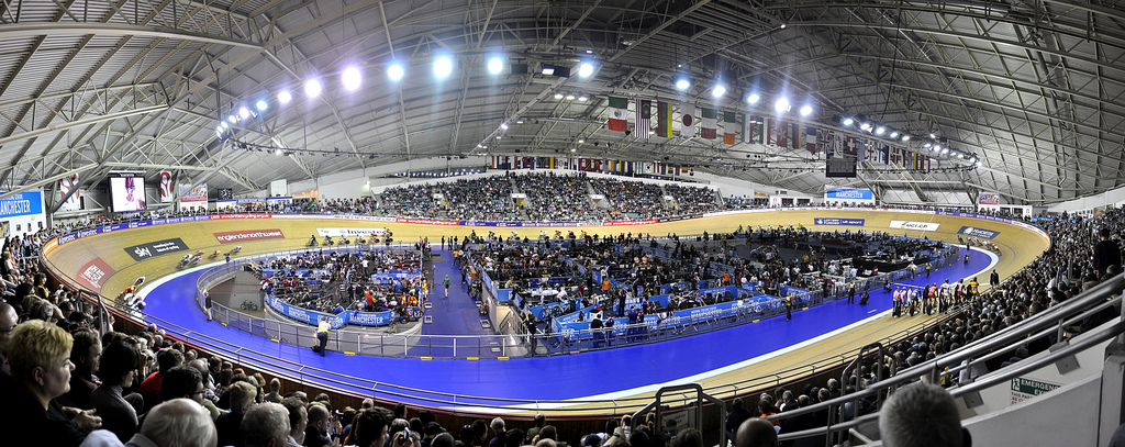 Manchester Velodrome during a men's kiren race.